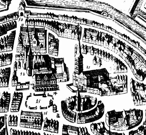 Cut of a print of Bremen with its central facilities: market (n° 15), townhall (14), cathedral (21), bishop's palace (right hand behind the townhall). Our Dear Lady's Church (12) and churchyard with the stock exchange (13).